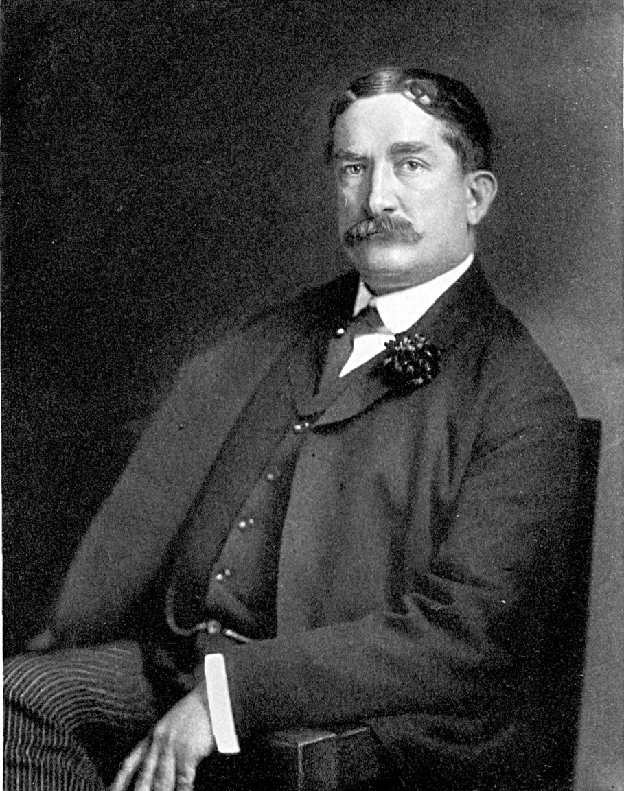 The financier Thomas W. Lawson